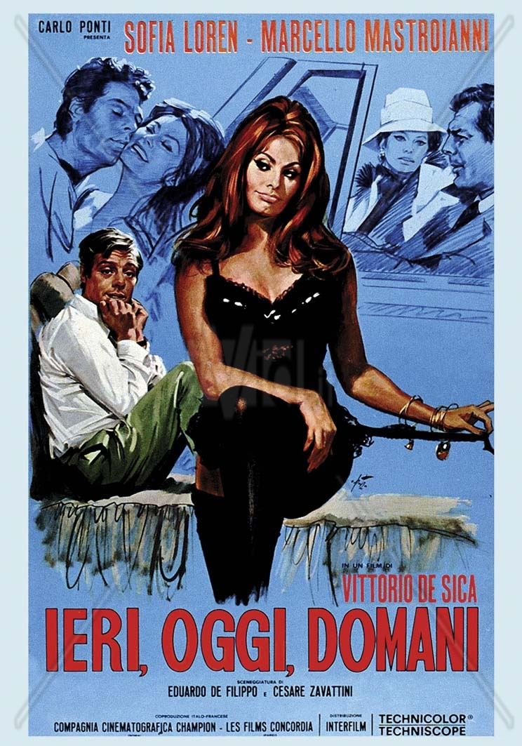 Yesterday, Today and Tomorrow Movie Poster